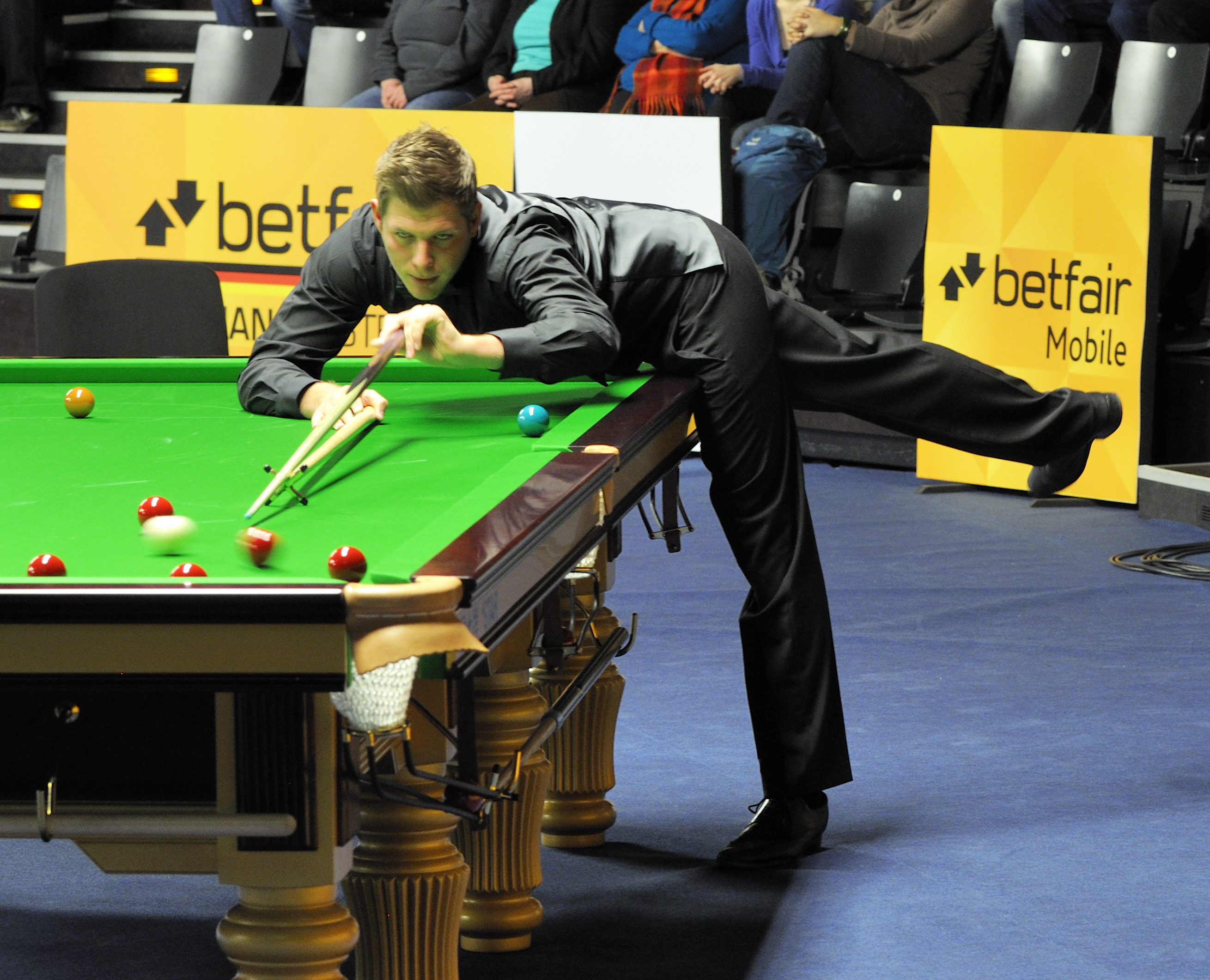 Picture taken in Berlin during the Snooker German Masters in 2013. Daniel Wells.